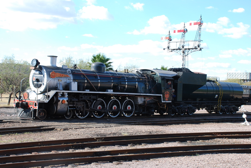 Borsig built Cape gauge locomotive Class 19D No. 2702 "Bianca" at the Rovos Rail Capital Park station, Pretoria, South Africa